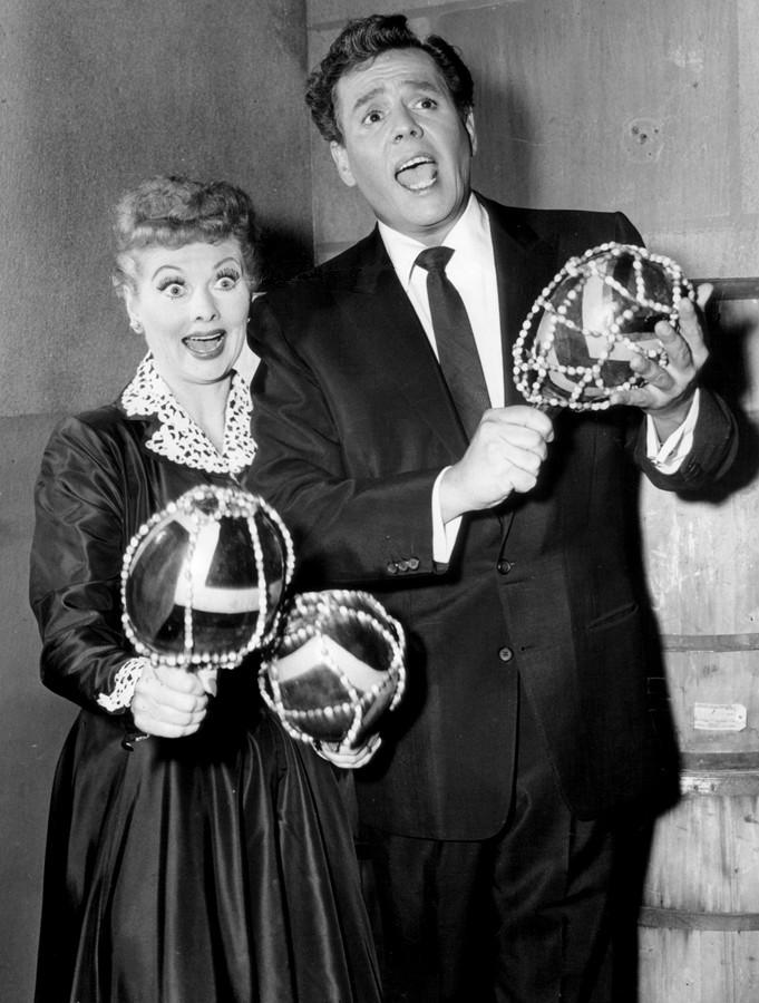 Publicity photo of Lucille Ball and Desi Arnaz for The Lucille Ball-Desi Arnaz Show. This is from the premiere episode of the show where Ball and Arnaz travel to Havana and relive their meeting and falling in love.